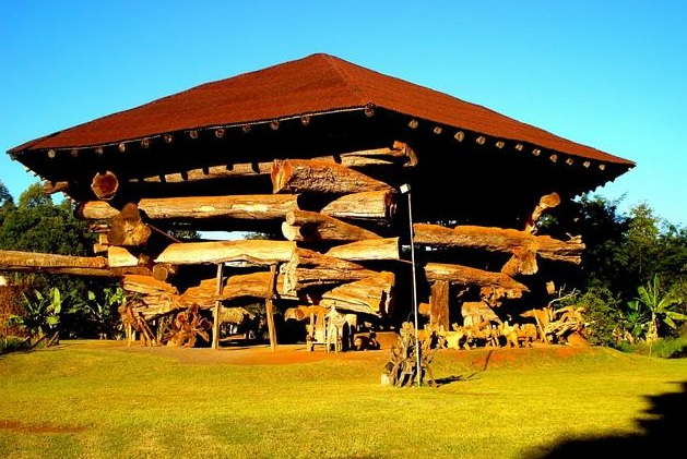 La Aripuca at Puerto Iguazu, Misiones Province, Argentina.